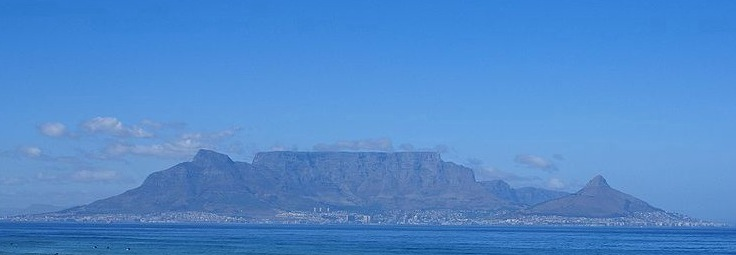 The iconic front view!